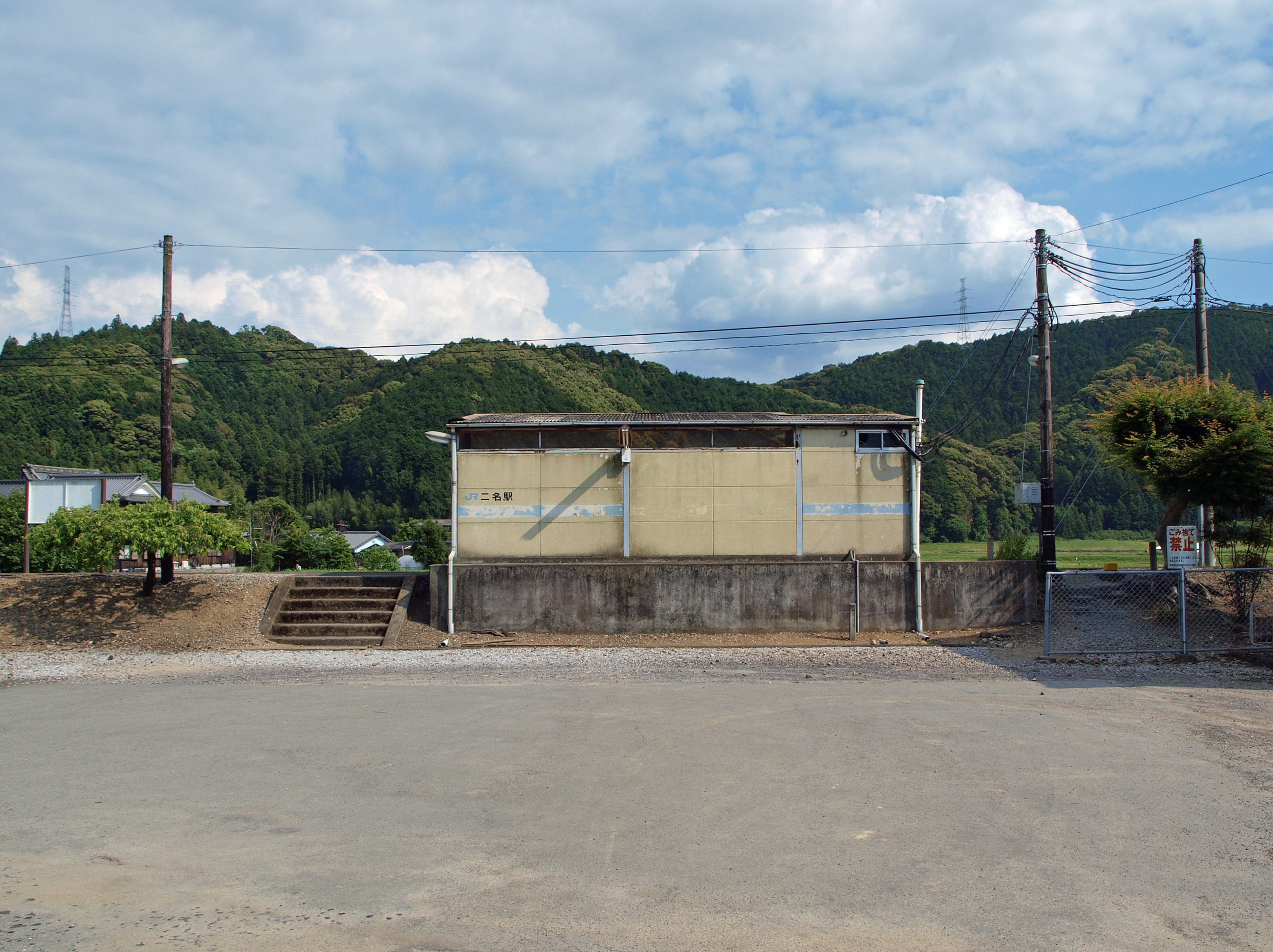 Futana station, Yodo-line, JR Shikoku, Japan